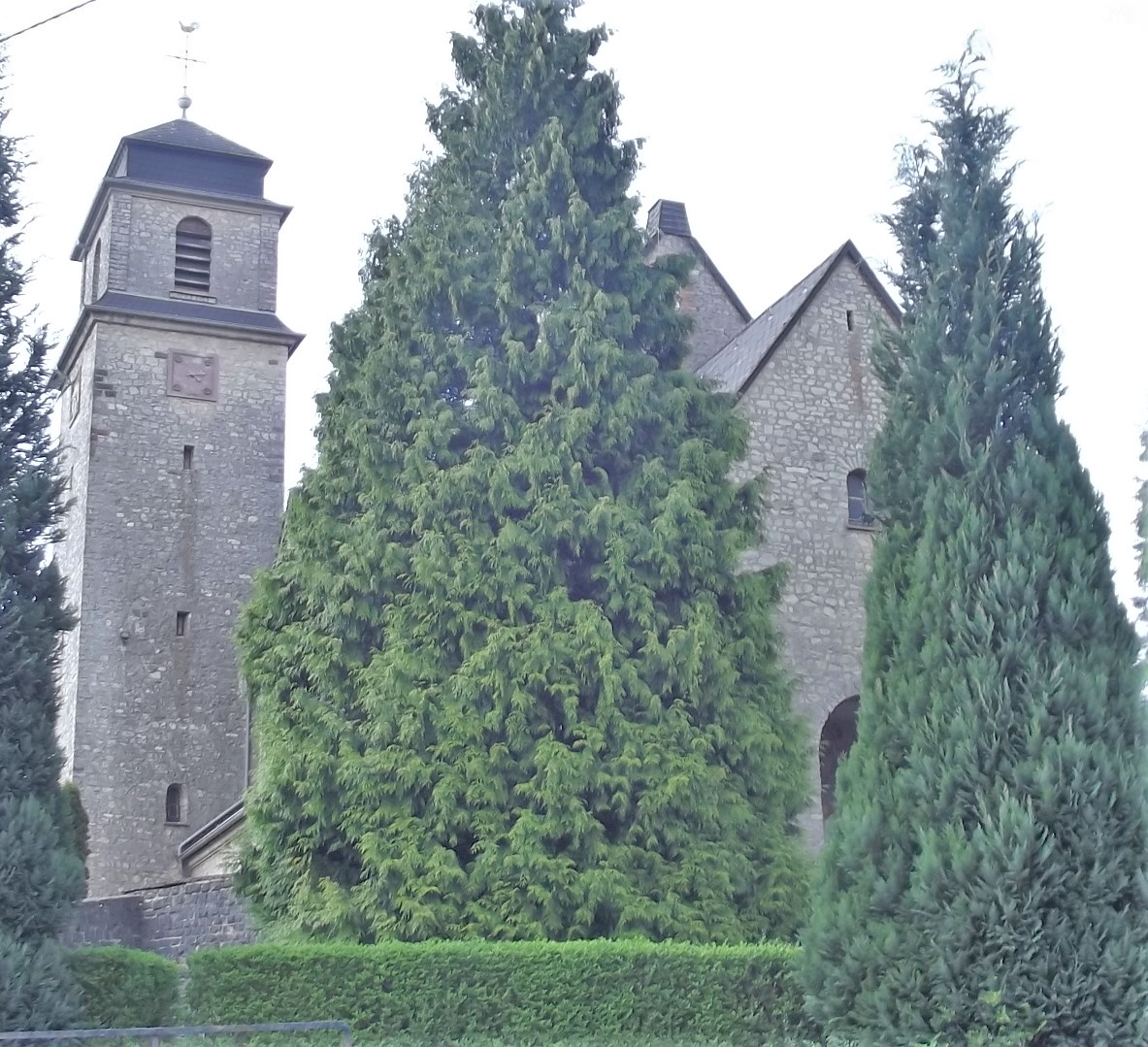 Exterior of the roman catholic church in Borg, Saarland, Germany